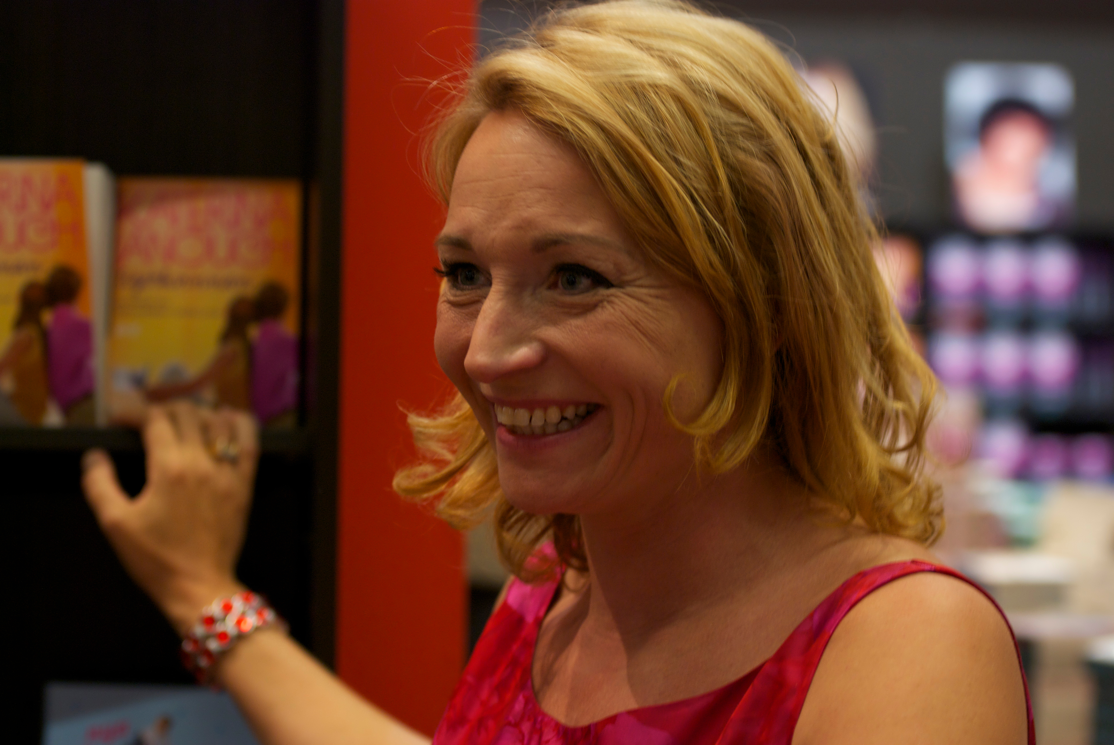 Martina Haag at Göteborg Book Fair 2011.